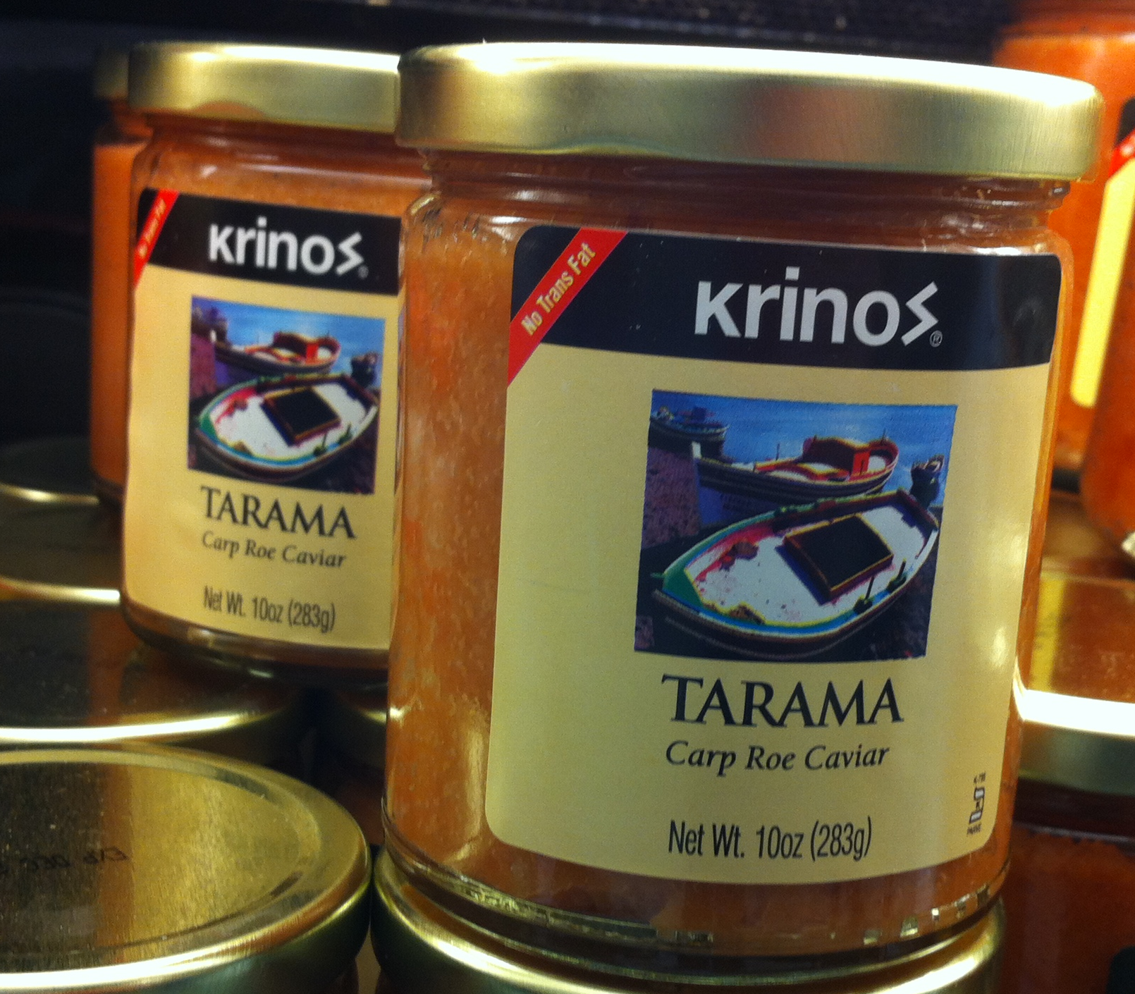 This is a jar of carp caviar